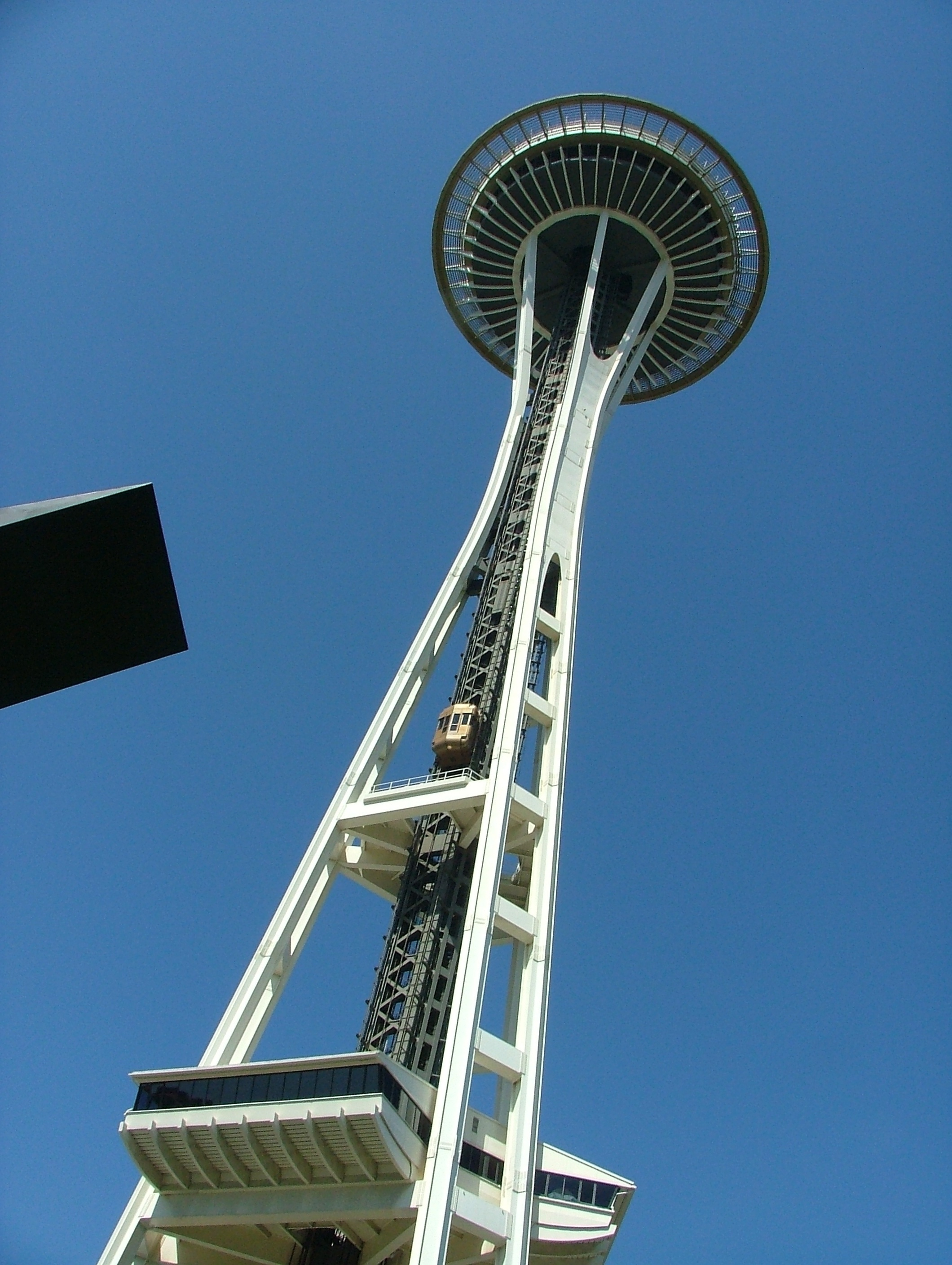 Space Needle, Seattle